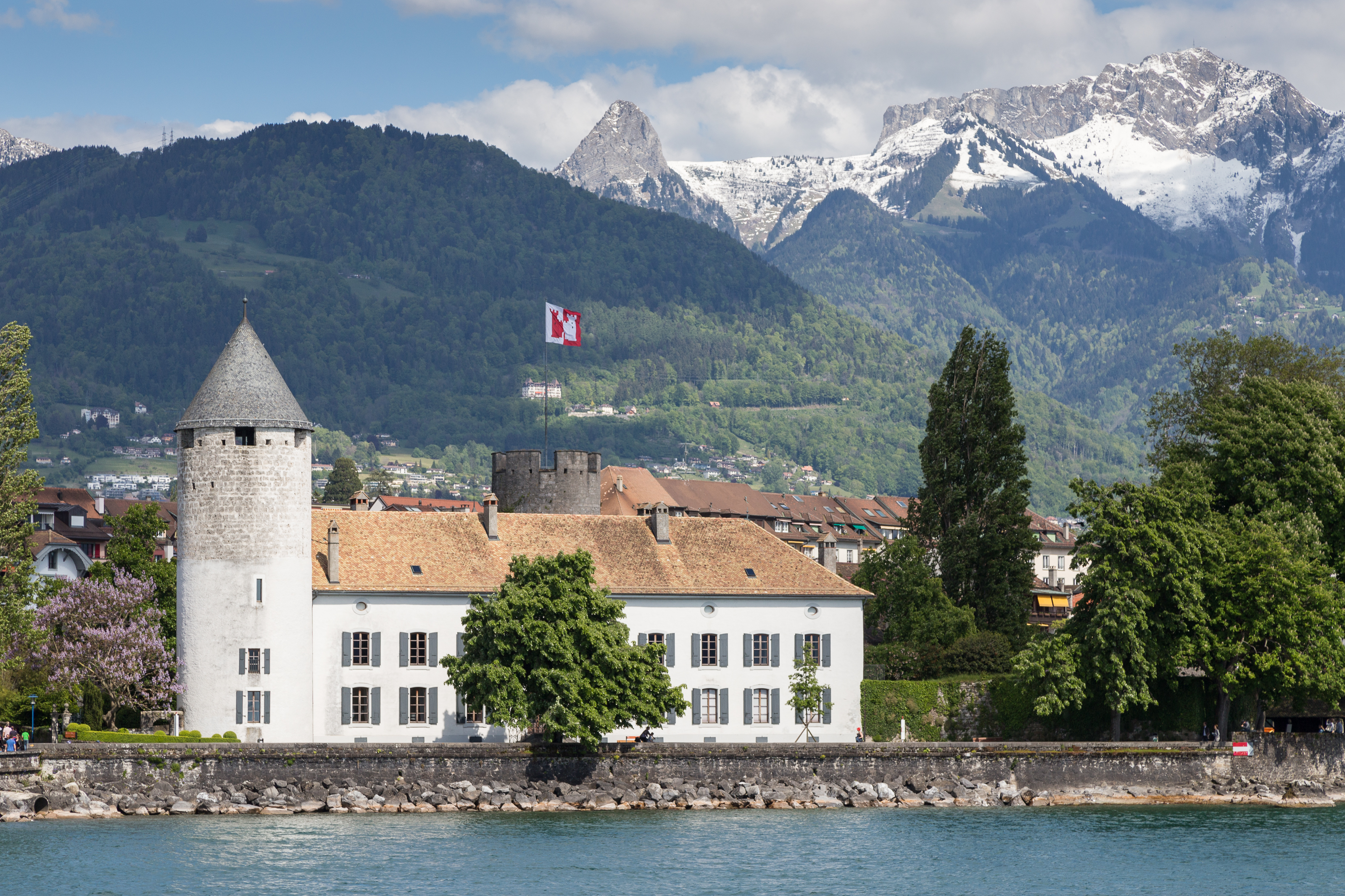 La Tour-de-Peilz Castle at Lake Geneva, Switzerland